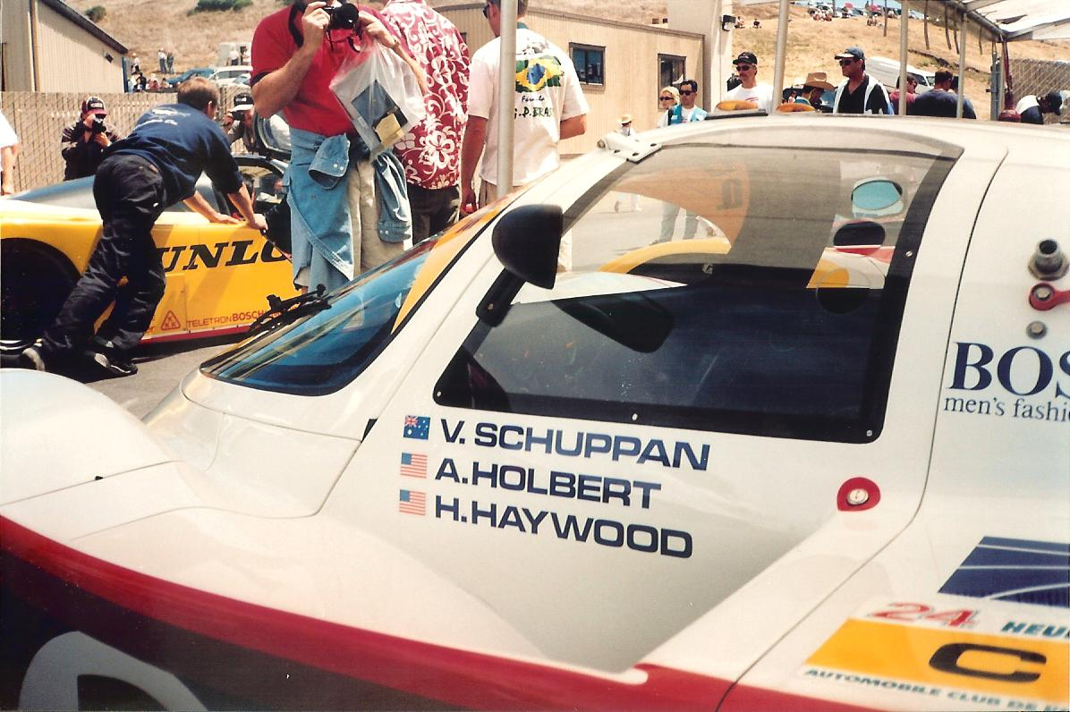 Closeup of the works team Porsche 956 no 3 that won the 1983 24 Hours of Le Mans, with Vern Schuppan / Al Holbert / Hurley Haywood at the wheel. Photo taken at the 1998 Monterey Historic Automobile Races. Scan of a colour print.